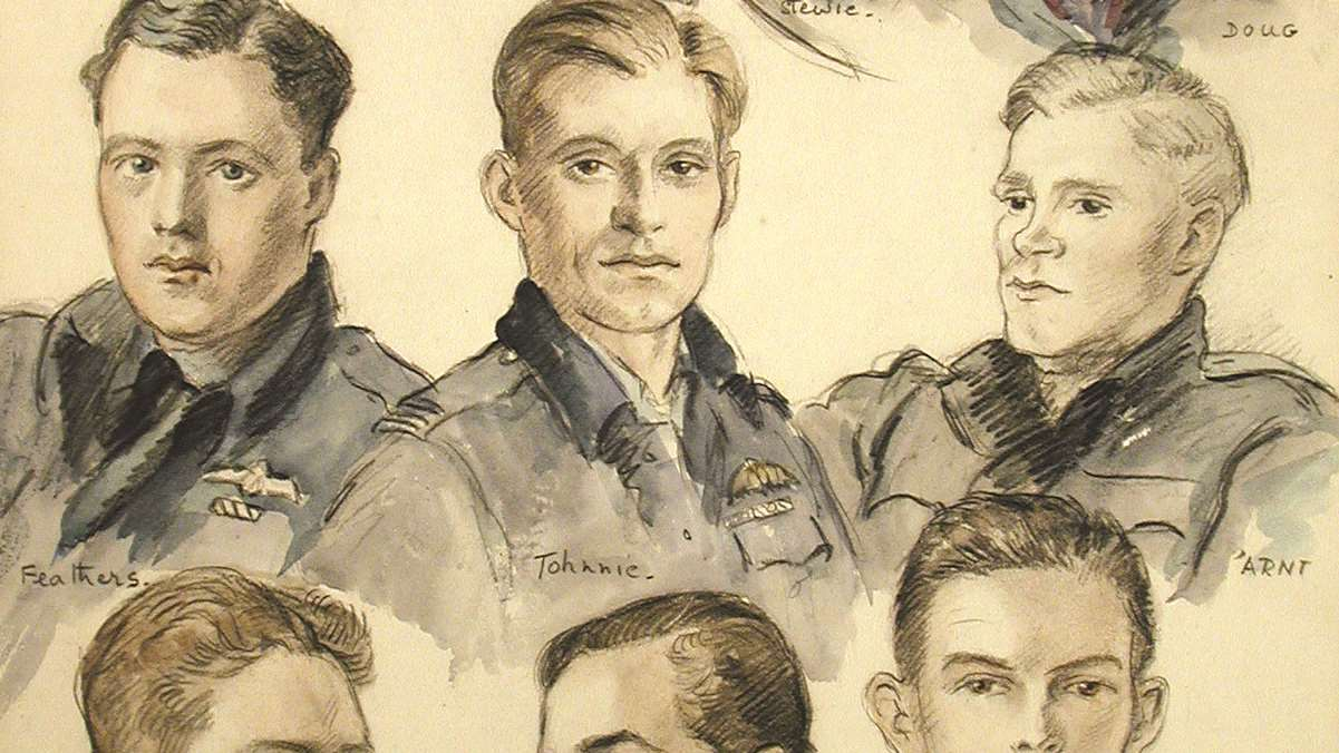 sketches asa war artist by Olive Snell